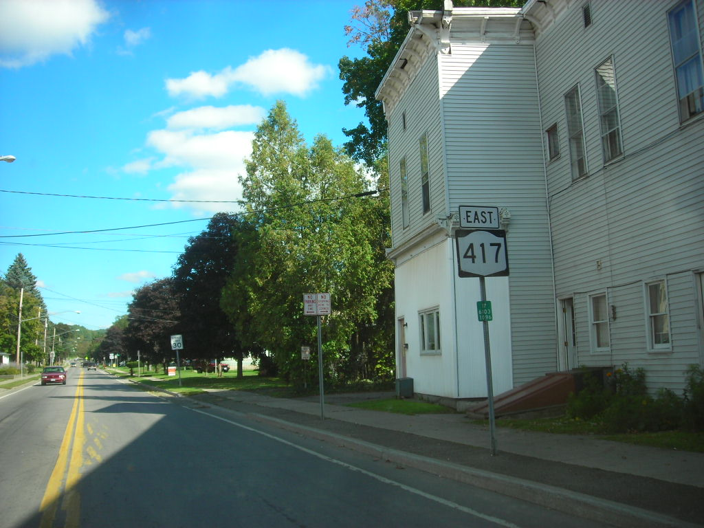 Eastbound on New York State Route 417 in Bolivar. The first row of the reference marker below the shield reads "17" for New York State Route 17, NY 417's original designation.